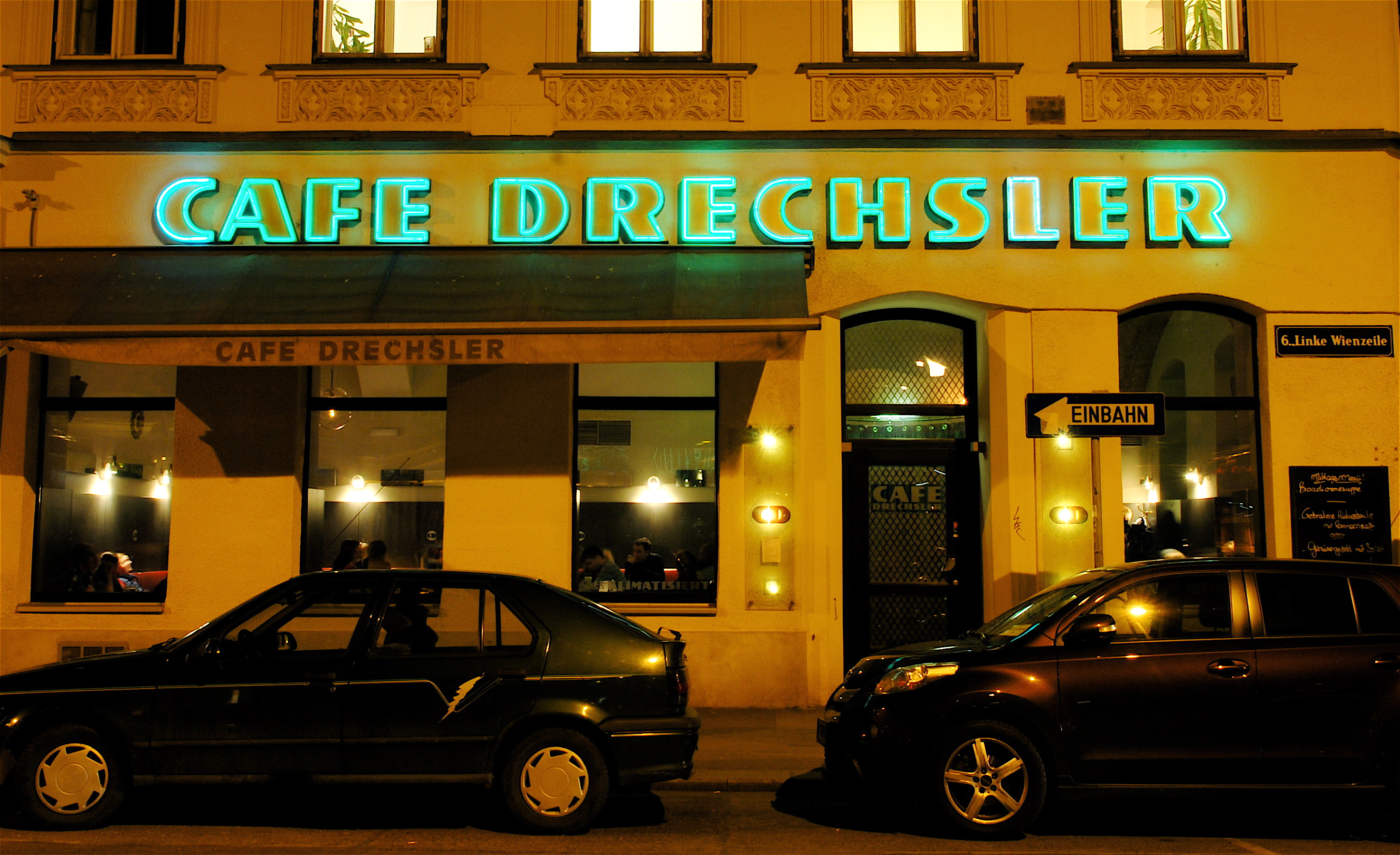 Cafe Drechsler, Vienna